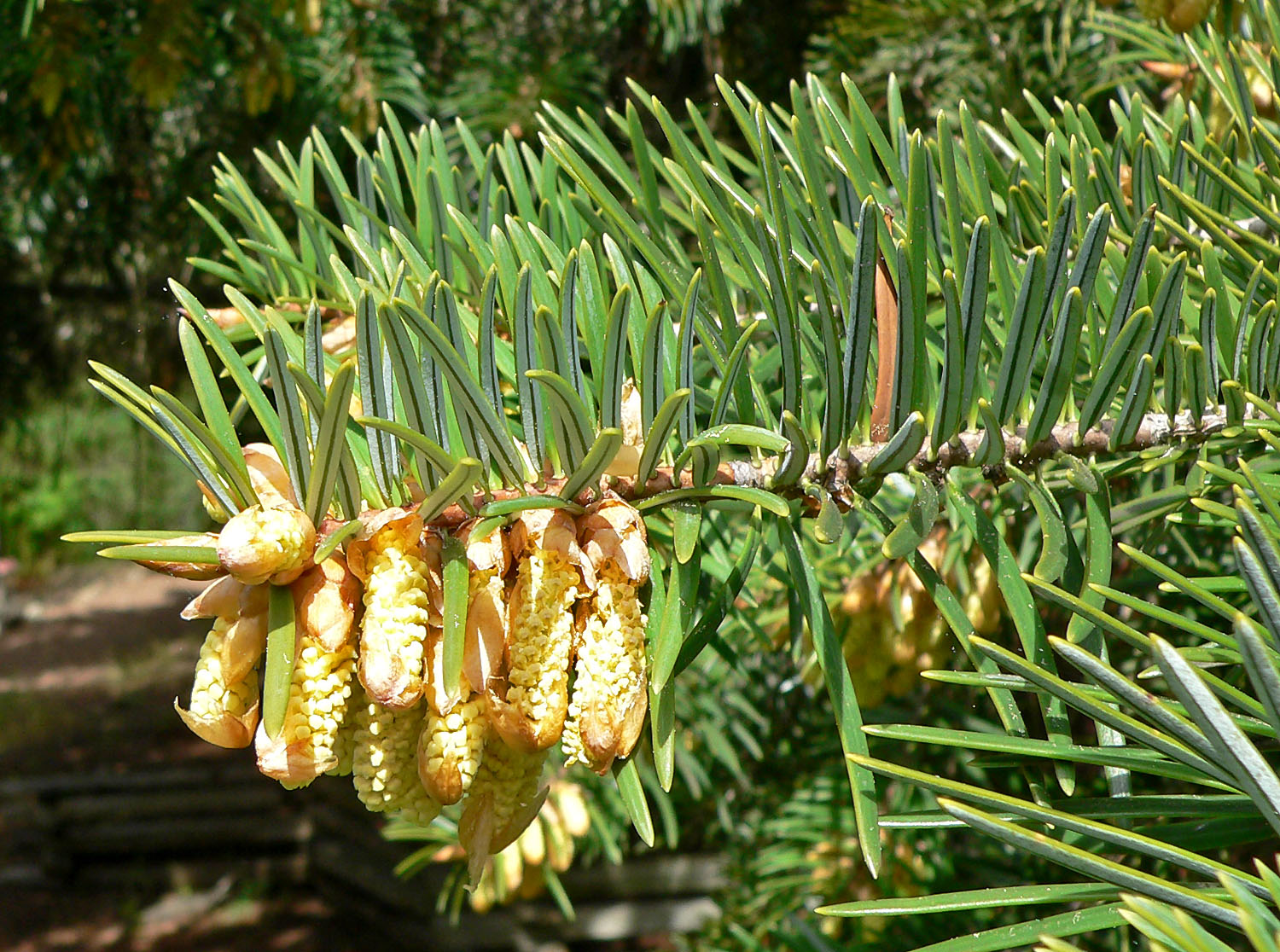 Photo of Abies bracteata at the Regional Parks Botanic Garden, Berkeley, California